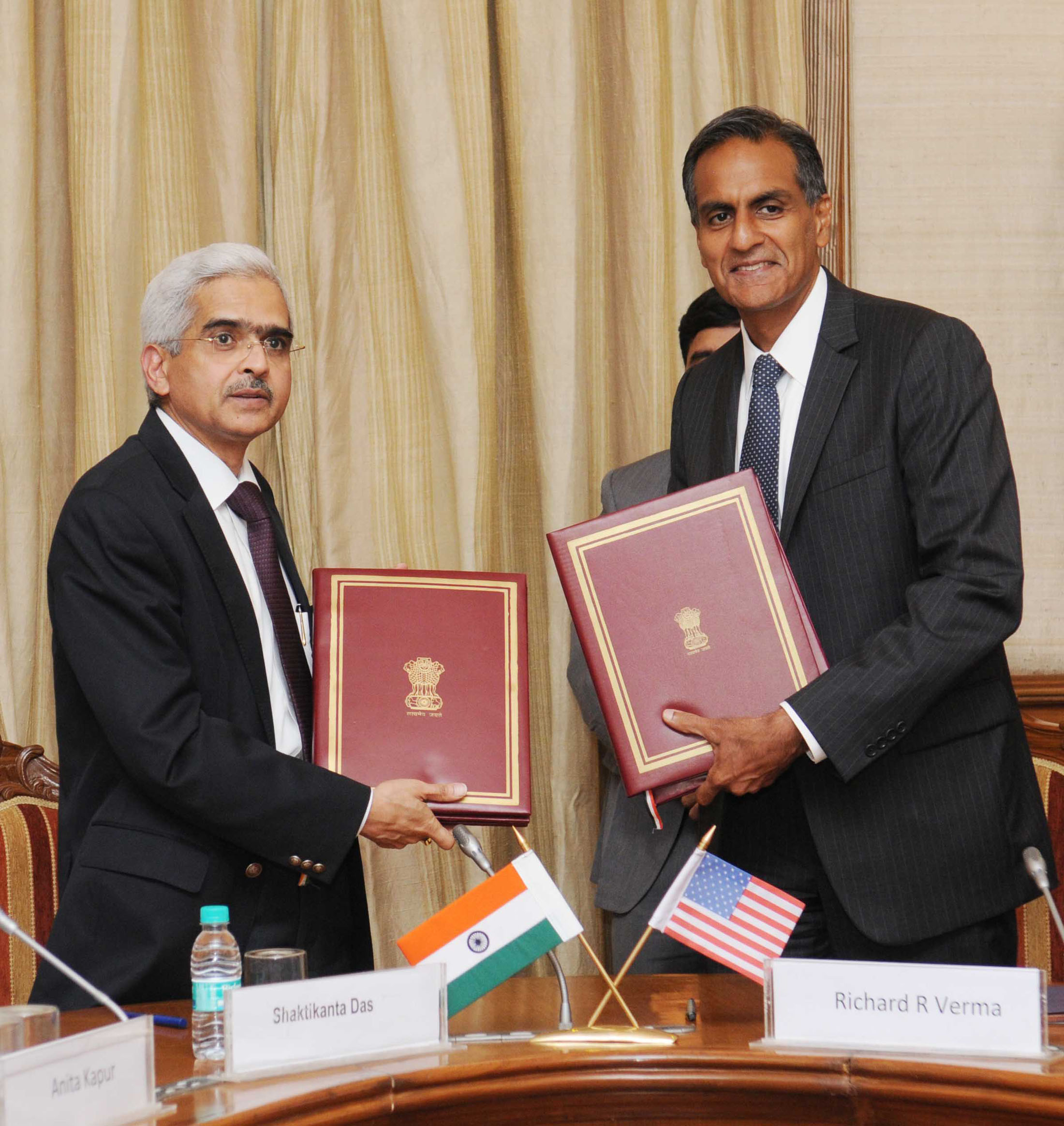 The Secretary, Department of Revenue, Ministry of Finance, Shri Shaktikanta Das and the US Ambassador to India, Mr. Richard R. Verma signed the Inter-Governmental Agreement between India and USA for Improving International Tax Compliance and Implementing the Foreign Account Tax Compliance Act (FATCA), in New Delhi on July 09, 2015.